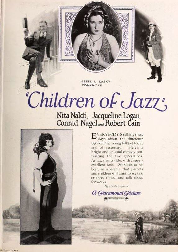 Early advertisement for the American drama film Children of Jazz (1923) before its cast was set, of the actors listed only Robert Cain ended up being in the case; page 37 from an insert listing forthcoming Paramount films, from a collection of loose pages from the 1922 and 1923 Exhibitors Trade Review.